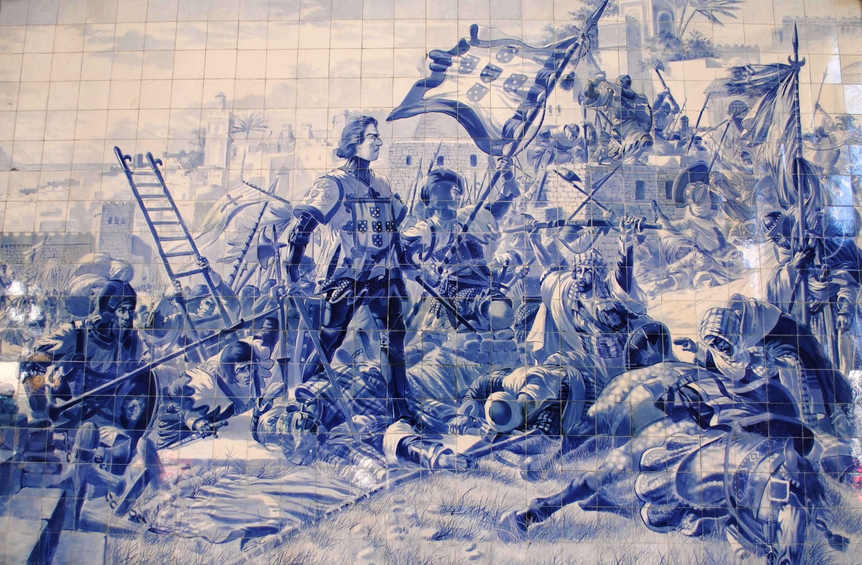 See title and categories.